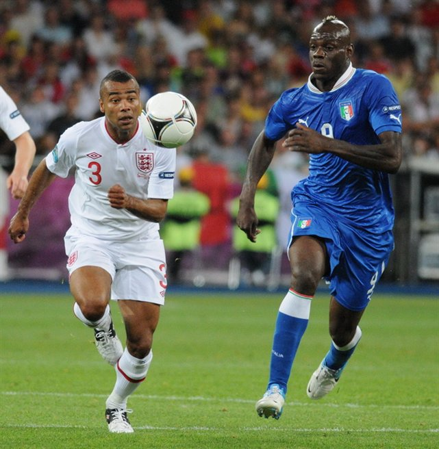 Ashley Cole and Mario Balotelli at Euro 2012 match England-Italy